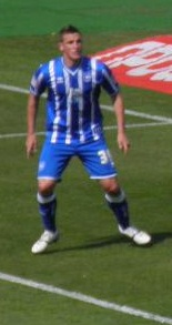 Photograph of Chris Wood